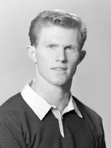 Photograph of Hastings rugby player William Leslie Davis, known as Bill Davis, taken by Crown Studio Ltd of Wellington.